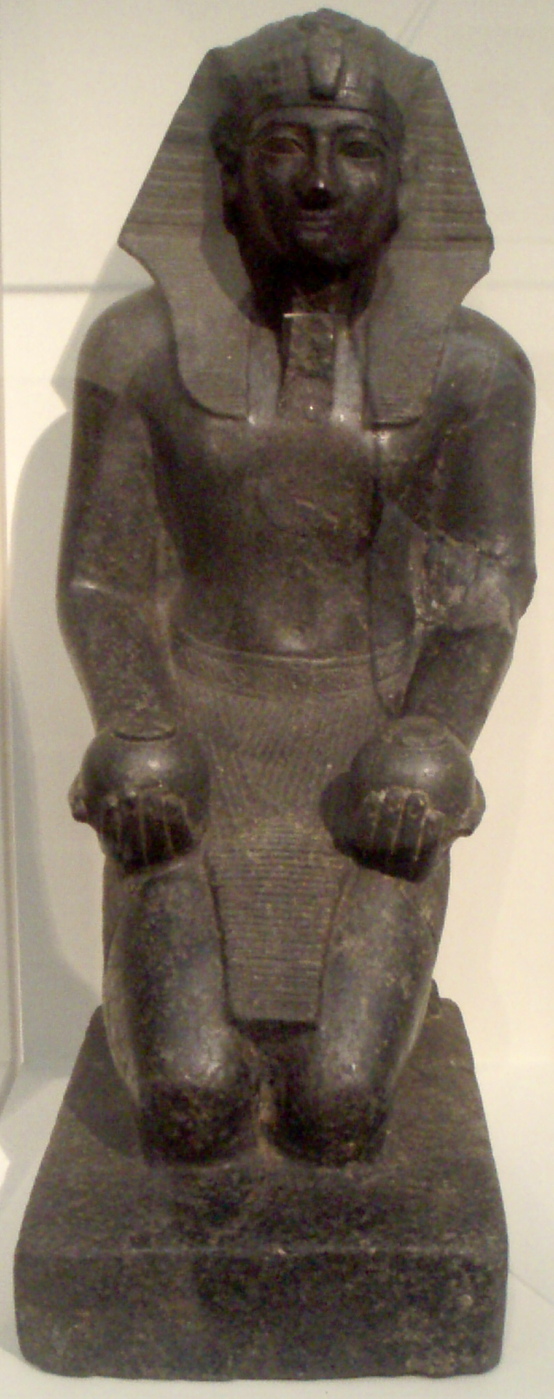 Kneeling granodiorite statue of the pharaoh Amenhotep II making an offering to the gods. From the 18th dynasty, reign of Amenhotep II, circa 1427-1400 B.C. Now at the Museum of Fine Arts, Boston. Museum catalog number: 57.2002.